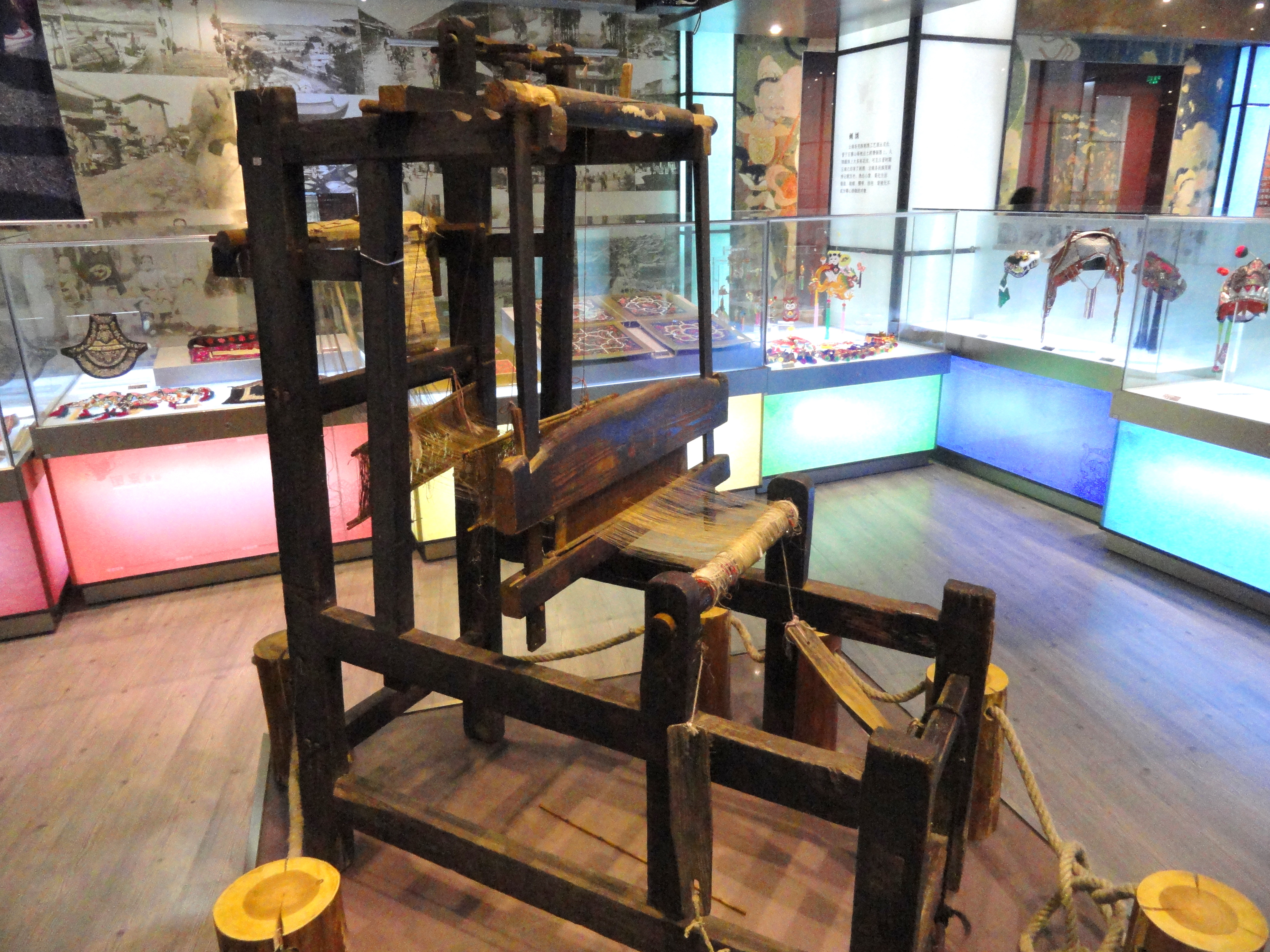 Zhuang loom. Exhibit in the Yunnan Provincial Museum, Kunming, Yunnan, China.